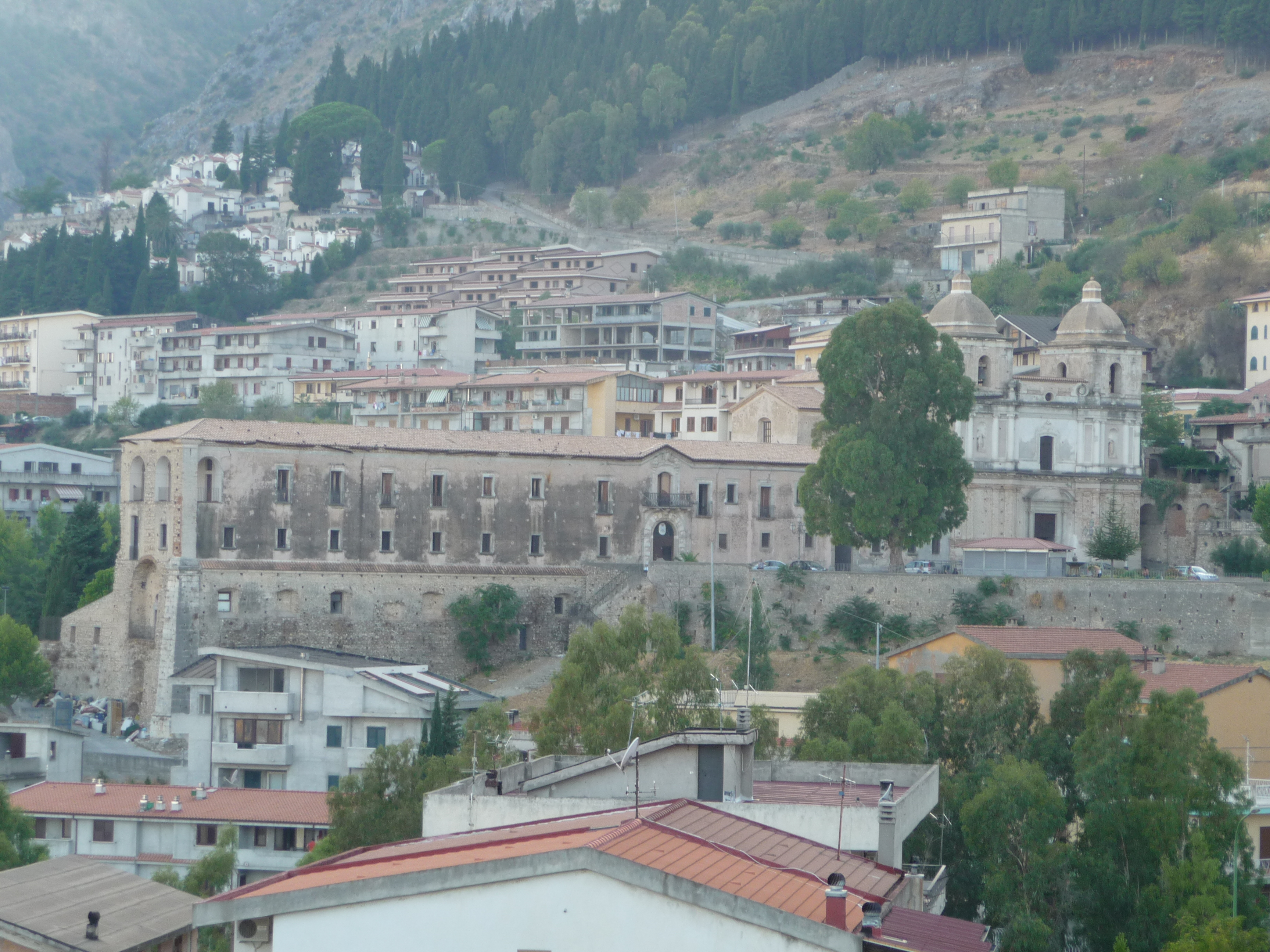 Church_of_San_Giovanni_Theresti (Stilo- Italy)